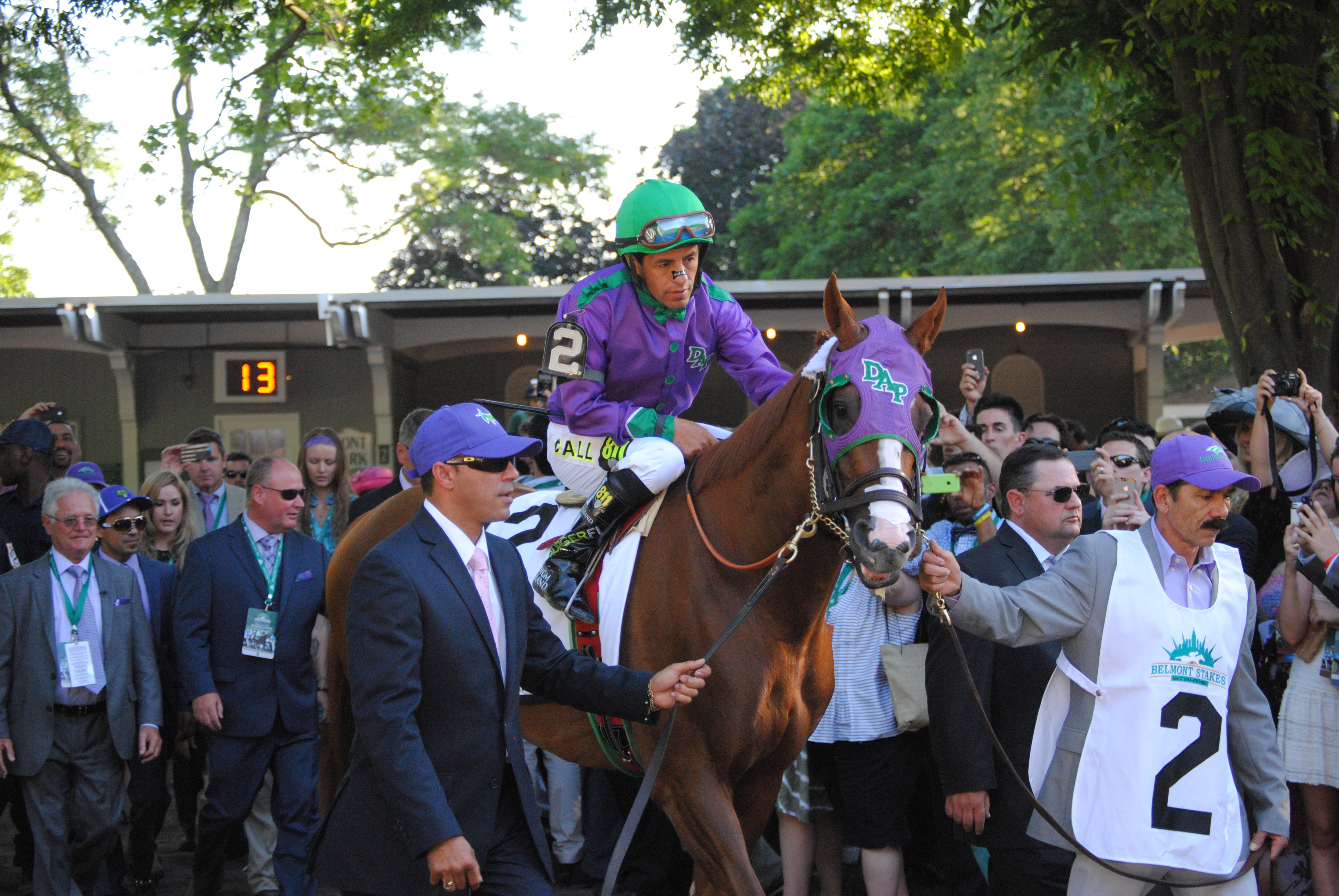 California Chrome with Victor Espinoza up in the walking ring for the 2014 Belmont Stakes